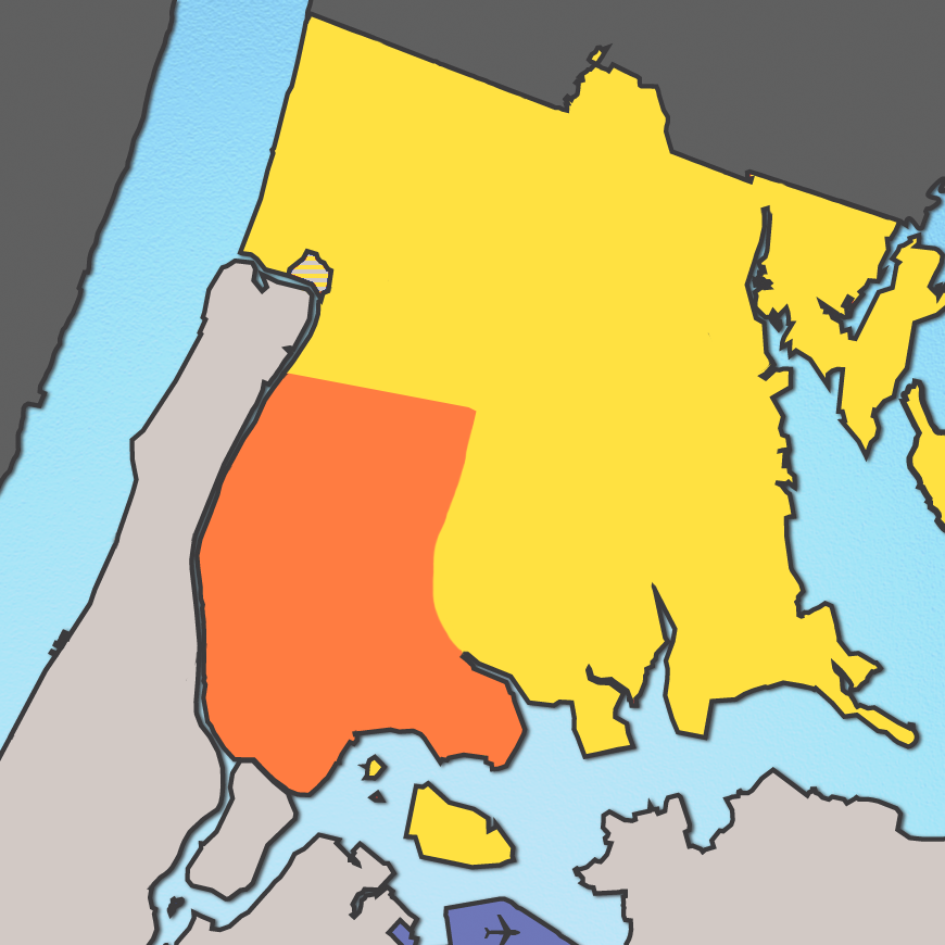 A map of The Bronx, New York, with the South Bronx area highlighted in red. Based on the information of the old image (Image:SouthBronxBronxNYC.JPG), and on the map on The Bronx. Just.. not done in paint.